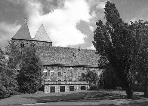 Reifensteiner Schule Obernkirchen 1960